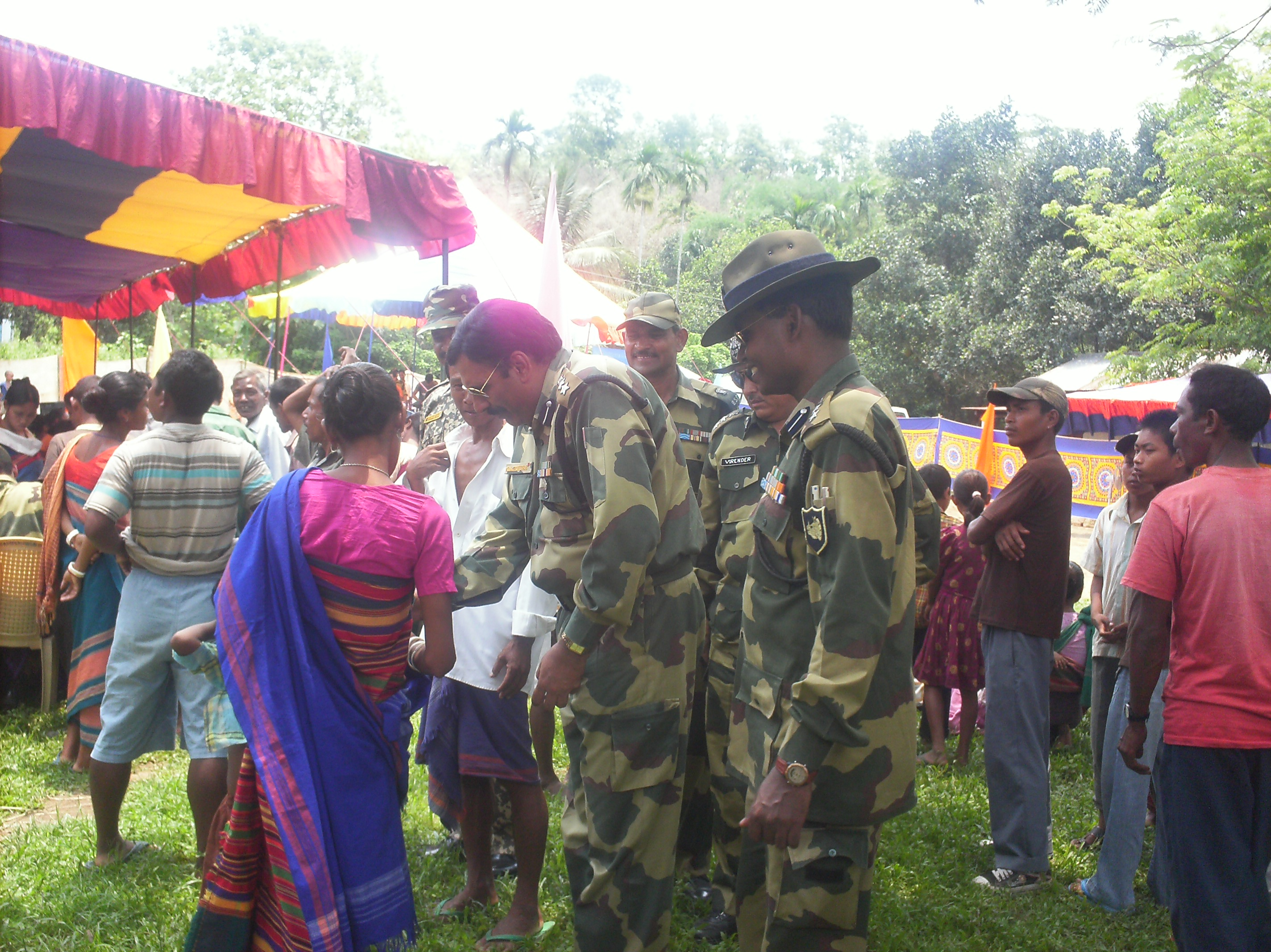 BSF men helping boder population in tura, meghalya